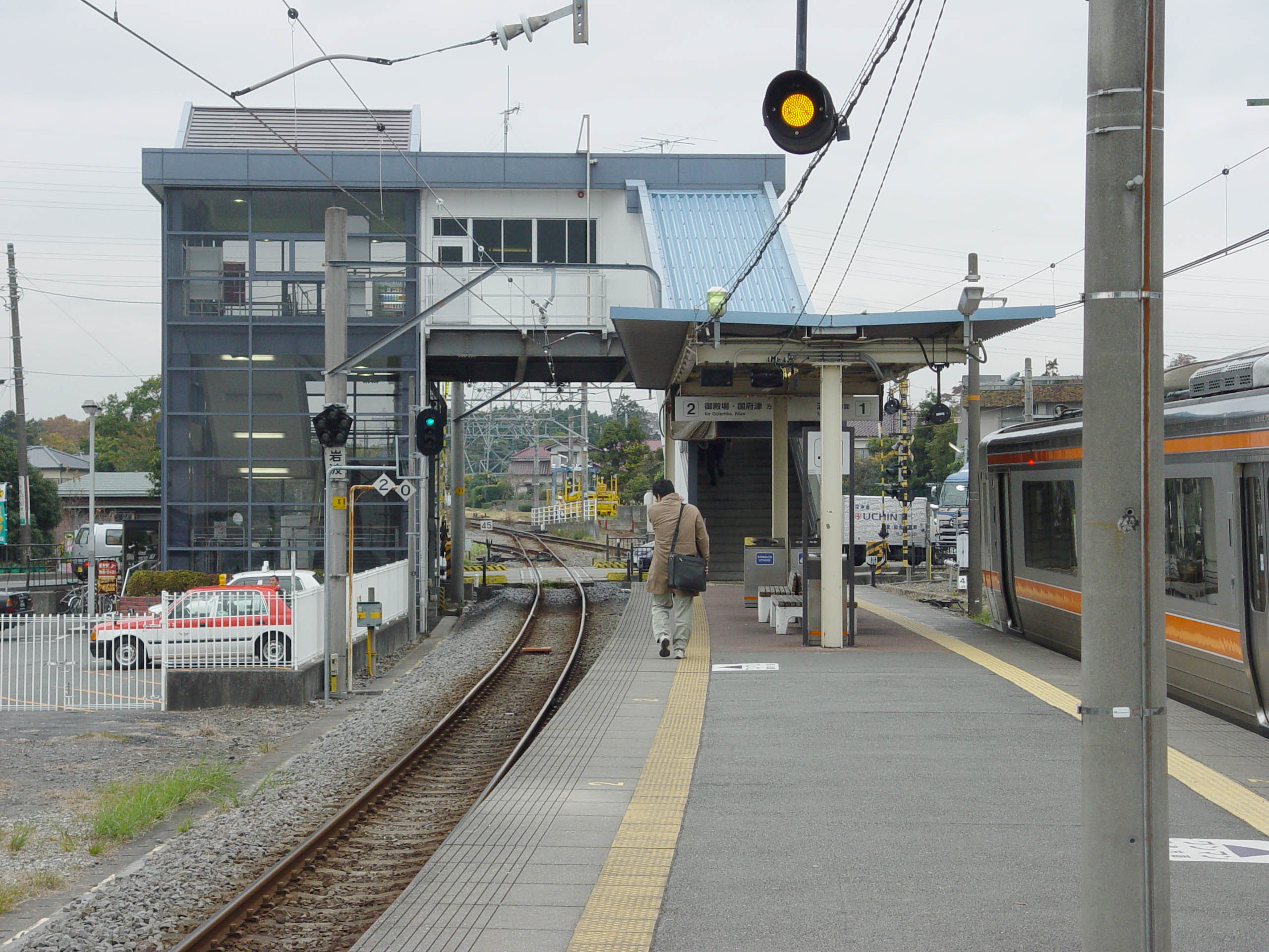 Iwanami Station, Gotenba Line, Japan